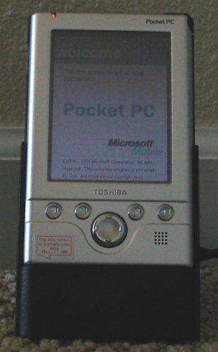 A Toshiba e310 Pocket PC is shown with its initial startup screen, sitting in its USB-equipped powered dock.